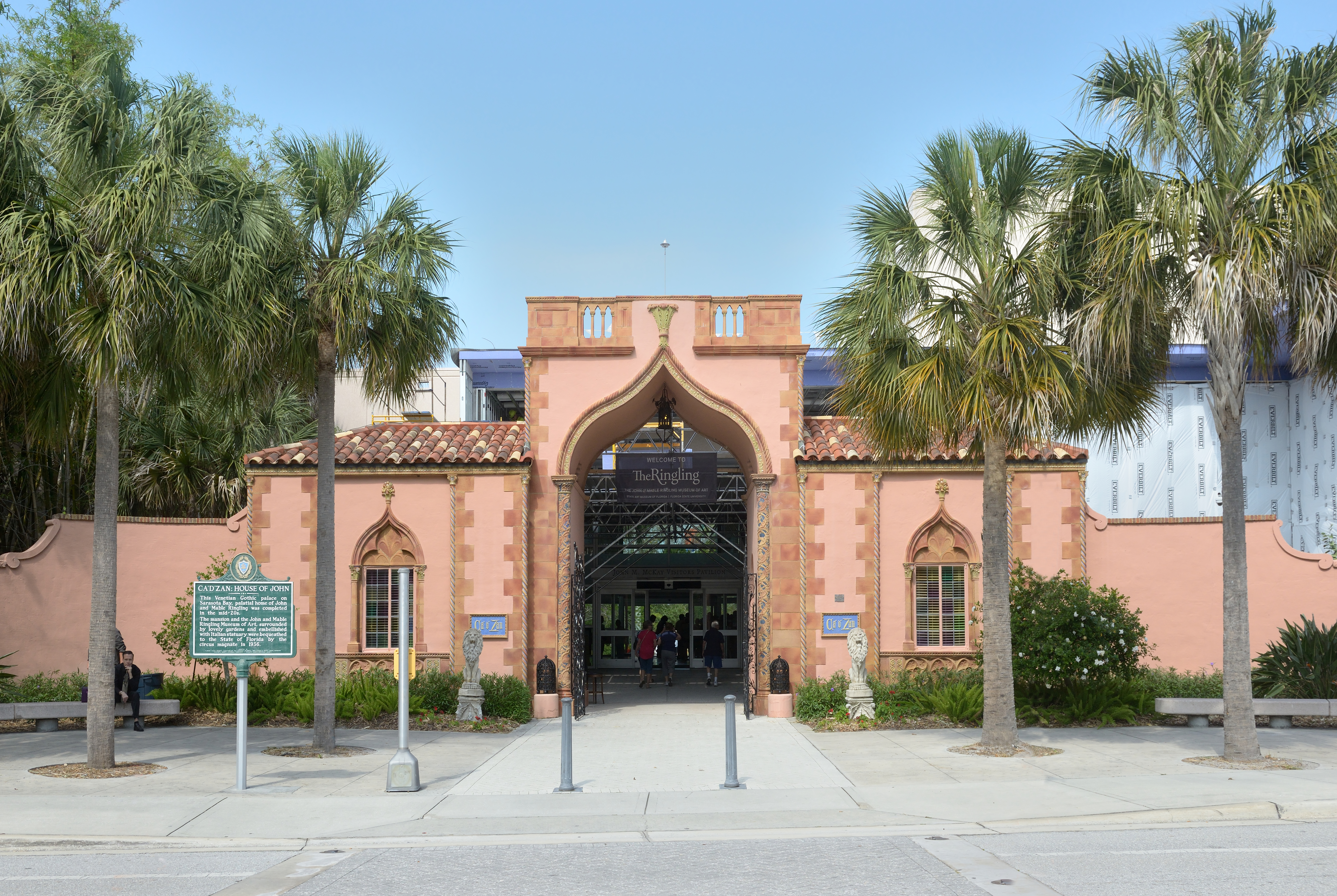 Main entrance to the John and Mable Ringling, Circus Museum in Sarasota in Florida.